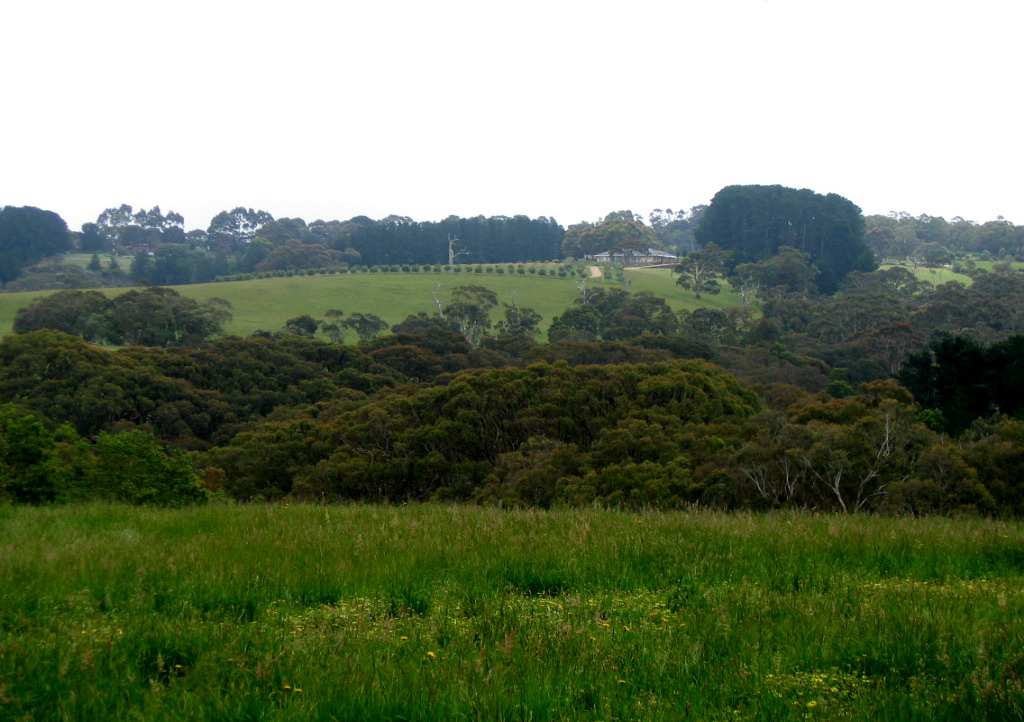 View over the locality of Main Ridge on the Mornington Peninsula, Victoria.